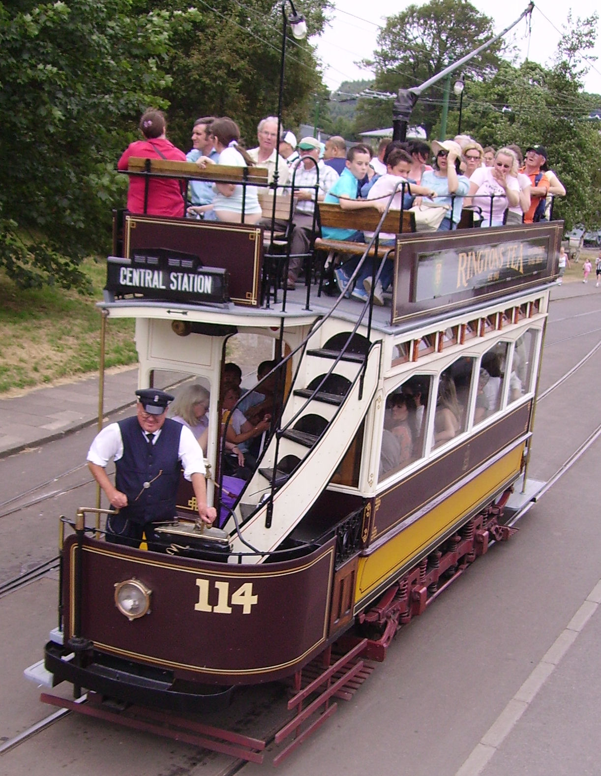 Tram No. 114 on the tramway at Beamish Museum, County Durham, England. It's seen here at the Home Farm stop, viewed from the south, operating a southbound journey. This elevated view is from the top deck of a bus in the road that passes in between the tram passing loop and the shelter (out of shot on the right).